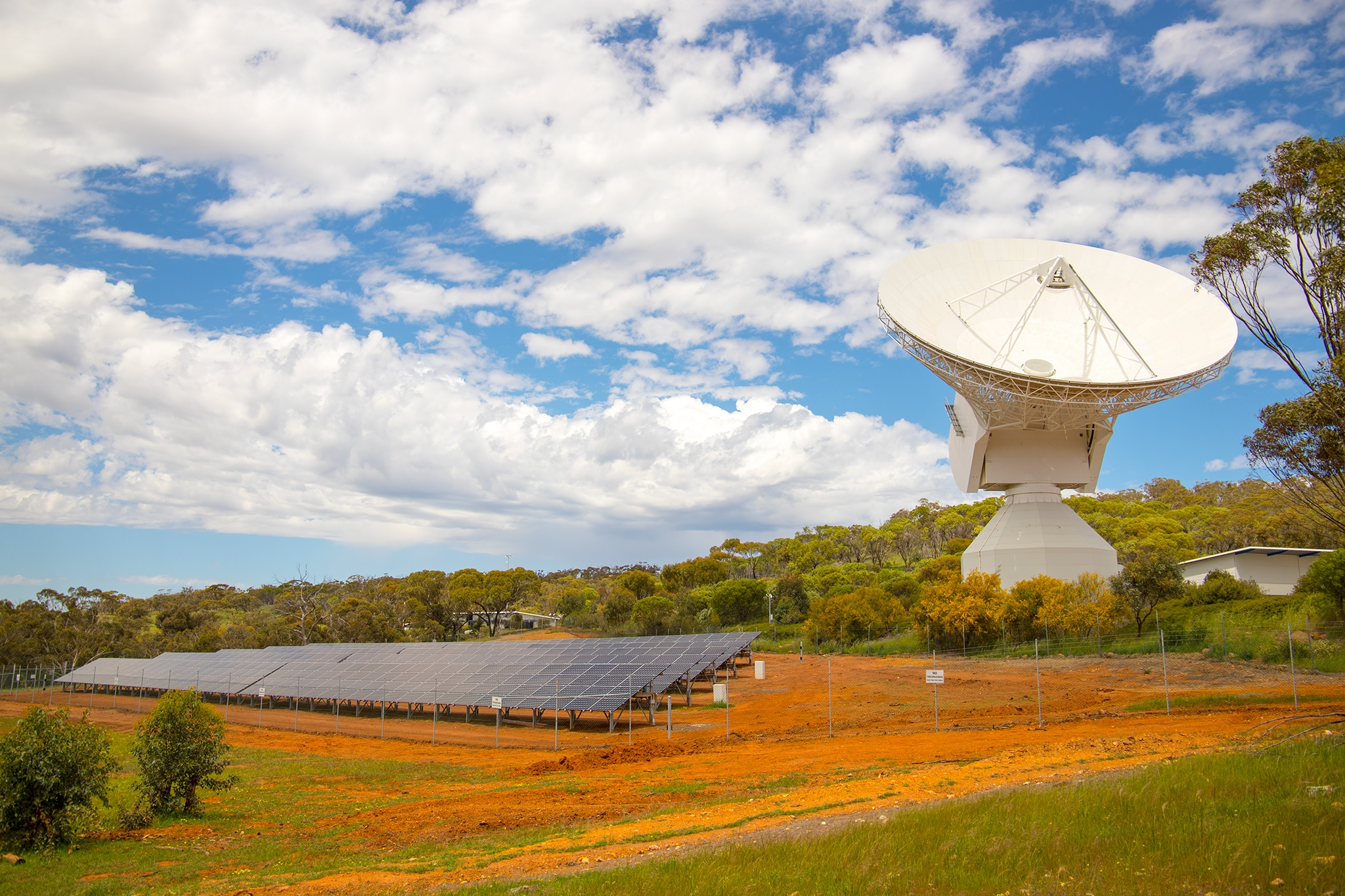 ESA’s 35-metre antenna in Australia has now been powered by the Sun for over a year, cutting costs and reducing carbon emissions by 330 tonnes. The solar plant at the New Norcia station in Western Australia started its first full month catching solar rays in August 2017. One year later, it had produced 470 Megawatt-hours of power, fuelling 34% of the total electricity consumption of the station. In order for the tracking station to be powered 100% by renewable energy, more panels would be required. Other sources of energy could also be used such as kite power, hydrogen or geothermal energy.